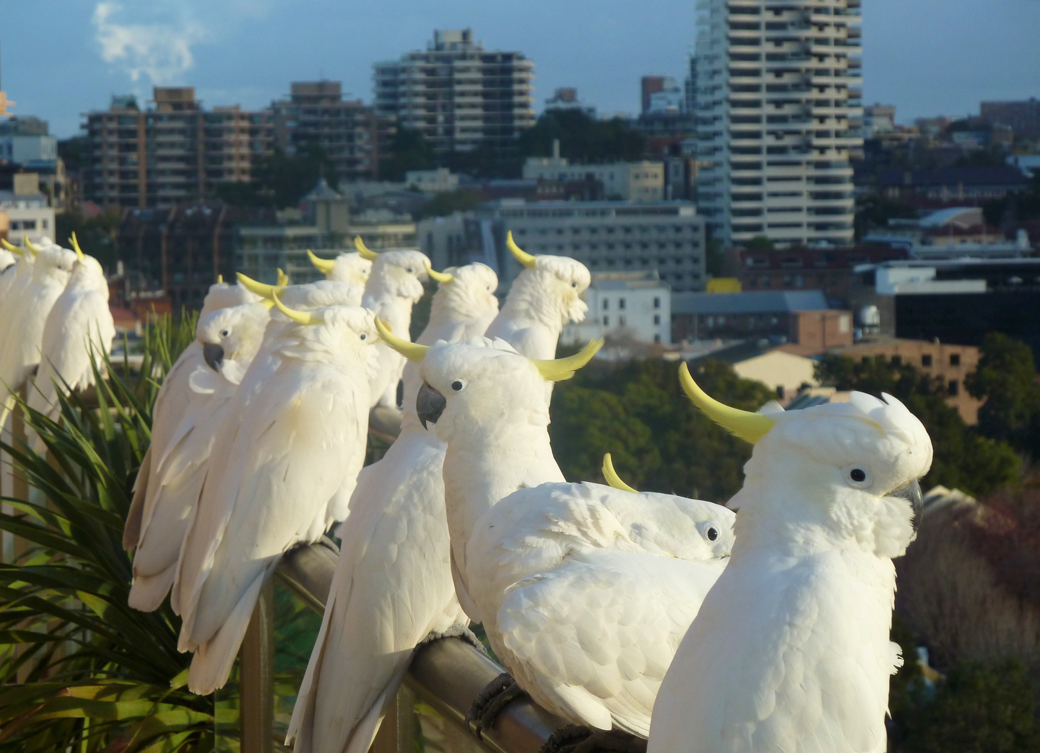 Sheltering from the cold SE Winds